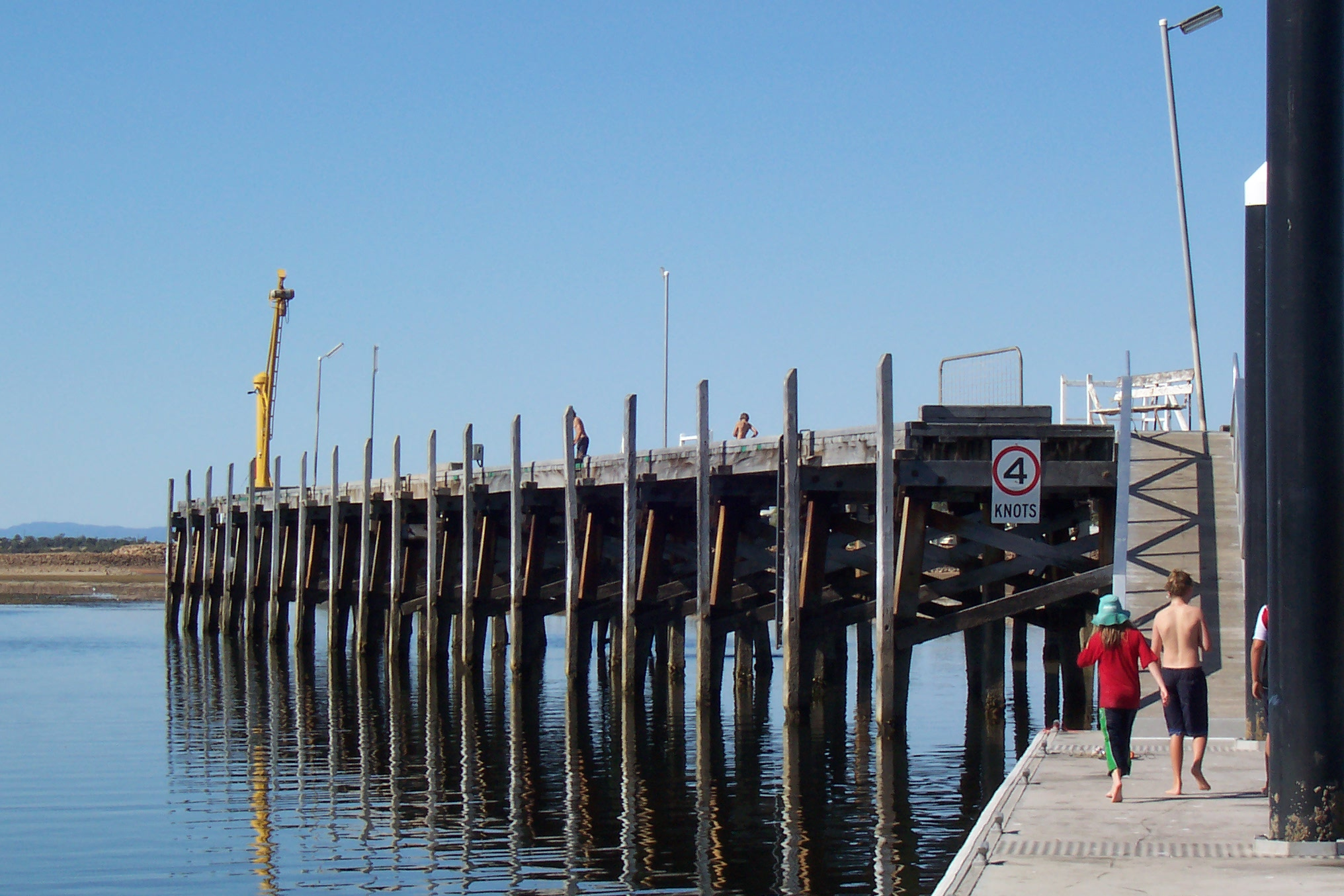 The end of the 'T'-shaped jetty at Port Broughton, South Australia